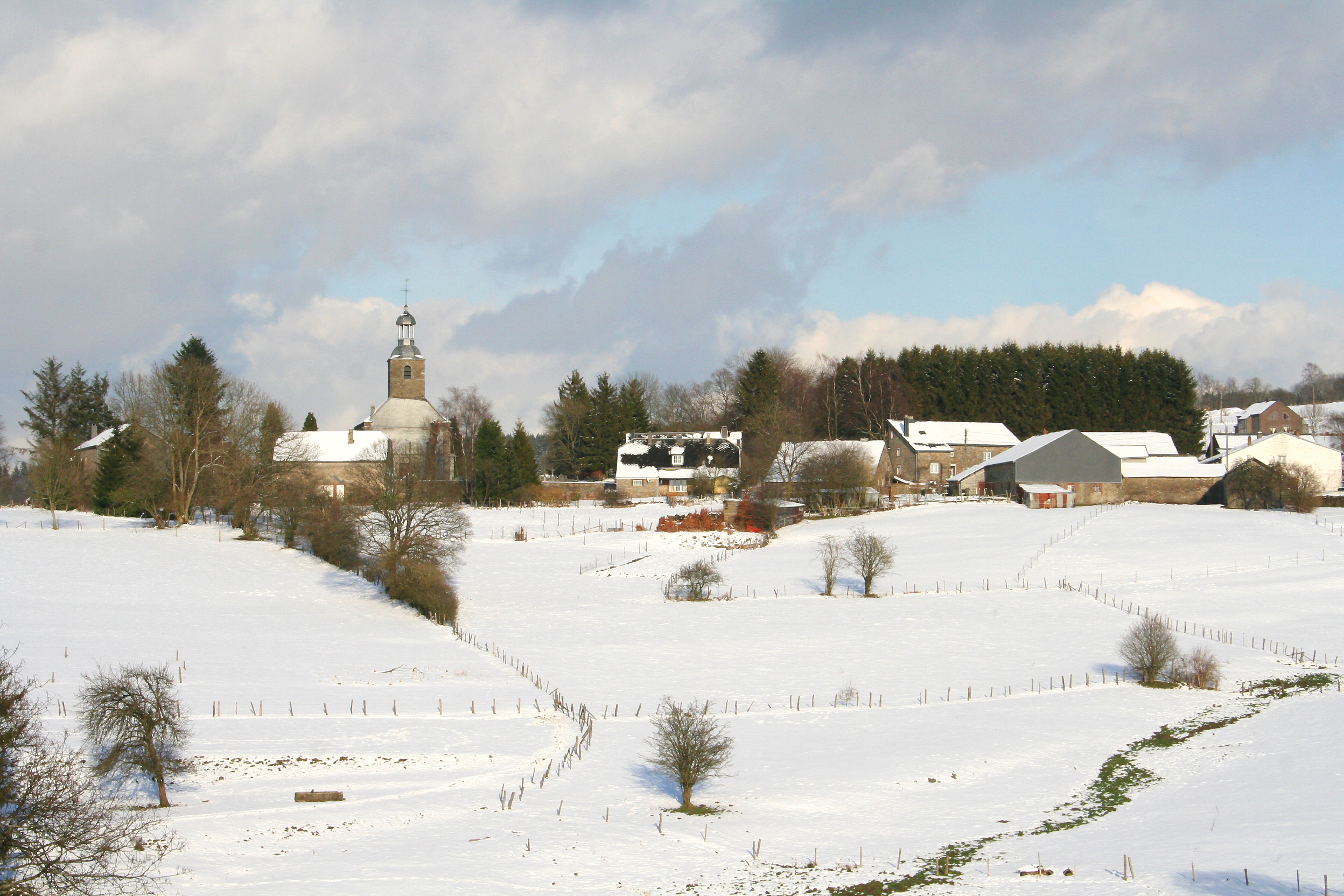 Odeigne (Belgium), the village viewed from the « Sur le Ri » road.